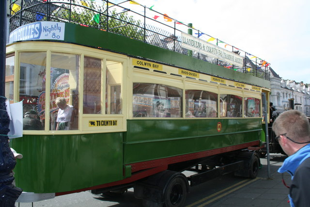 Original Llandudno Tram Displayed during the May Bank Holiday one of the original Tramcars, sadly no longer on its original bogies, but on a rubber-tyred chassis.